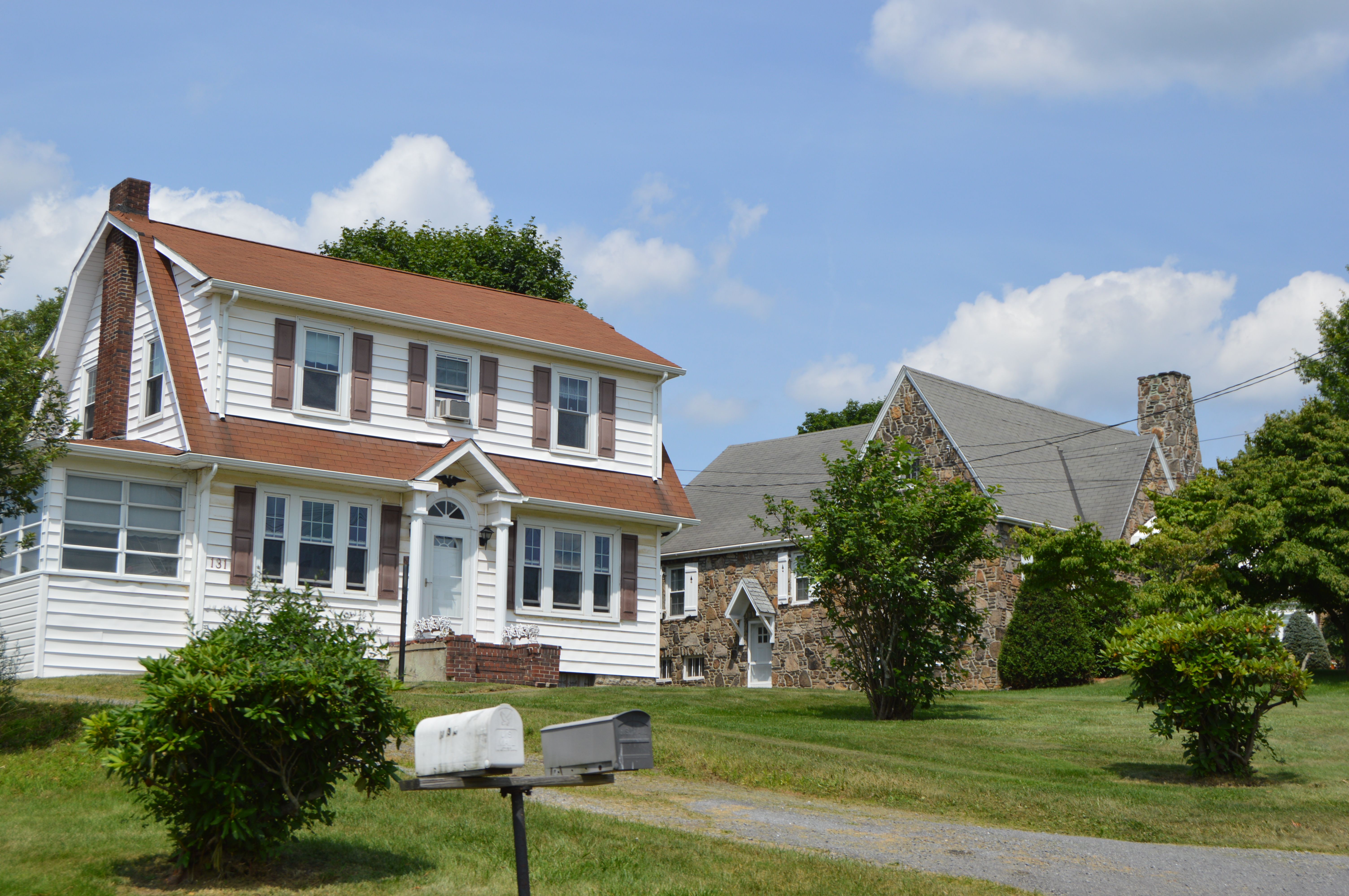 Houses on Kinzey Street east of Alfred Street in Geistown, Pennsylvania, United States.